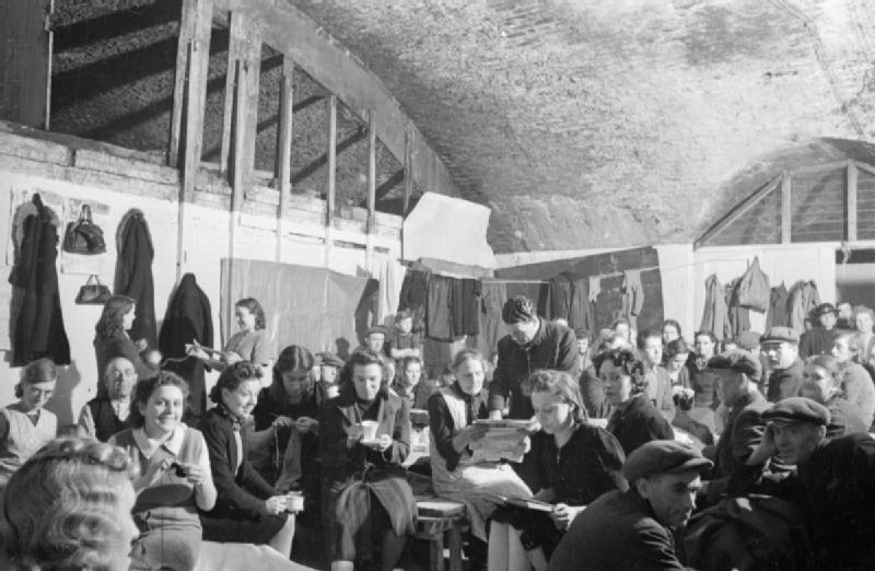 Air Raid Shelter Under the Railway Arches, South East London, England, 1940 A large group of shelterers drink cups of tea and read the newspaper under the railway arches, somewhere in South East London, probably in November 1940. Items of clothing and handbags can be seen hanging on nails on the walls.